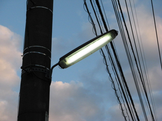 Crime prevention light in Japan